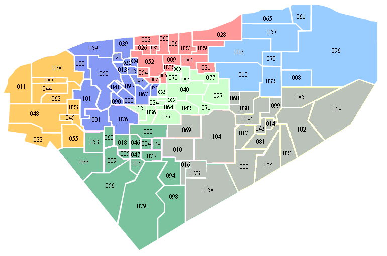 A map of the municipalities of Yucatán, coloured by region, showing seven regions instead of nine in accordance with recent changes.